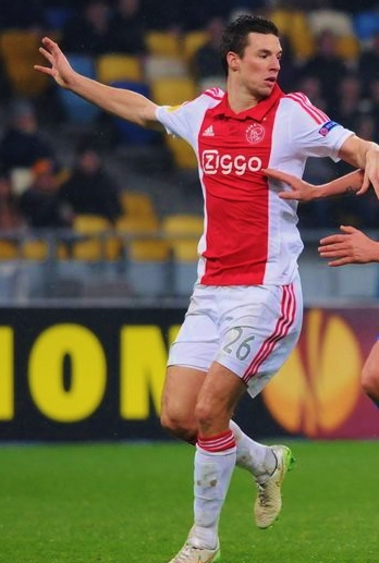 Nick Viergever